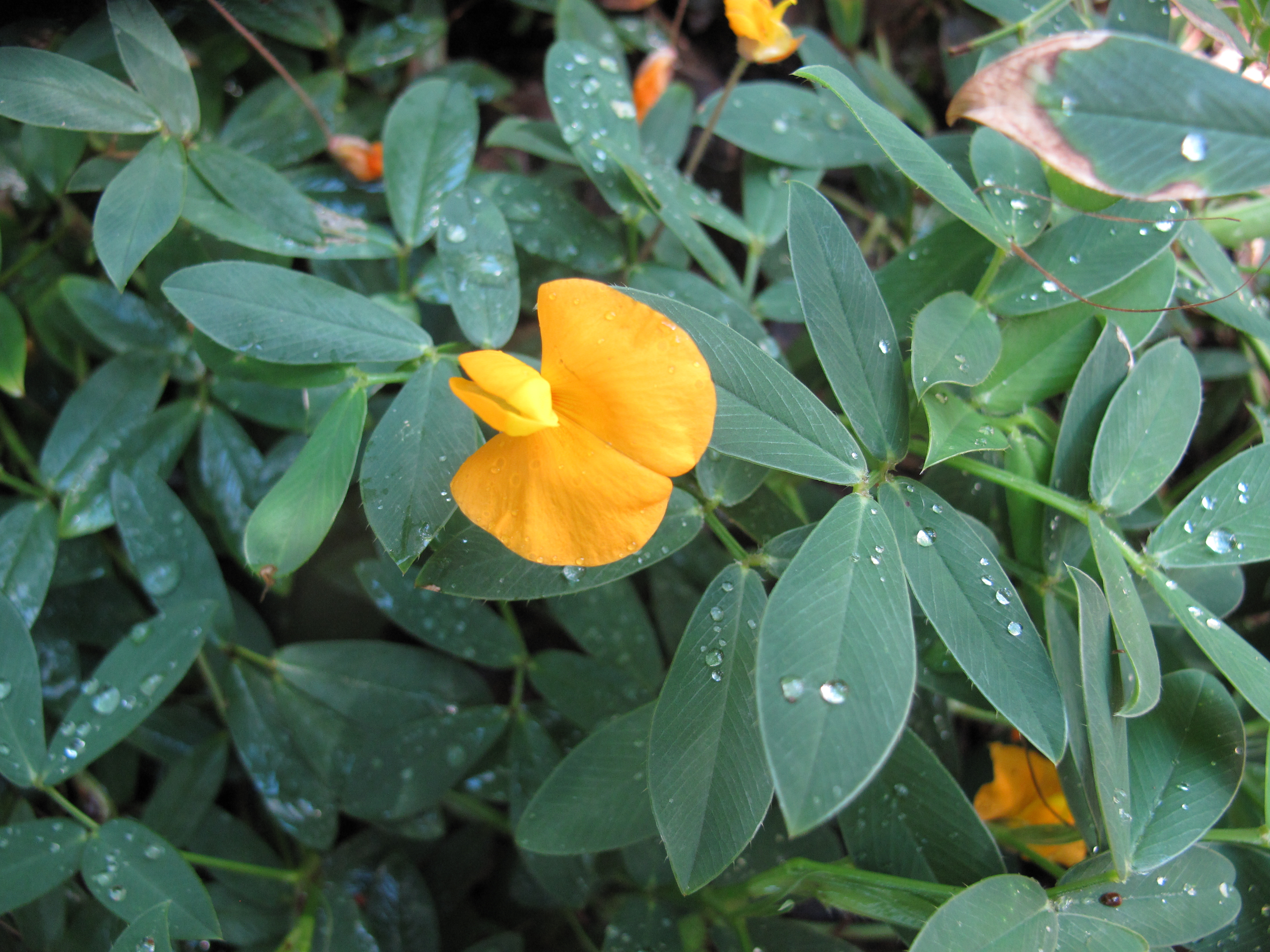 Rhizome peanut growing at Townsville north Queensland